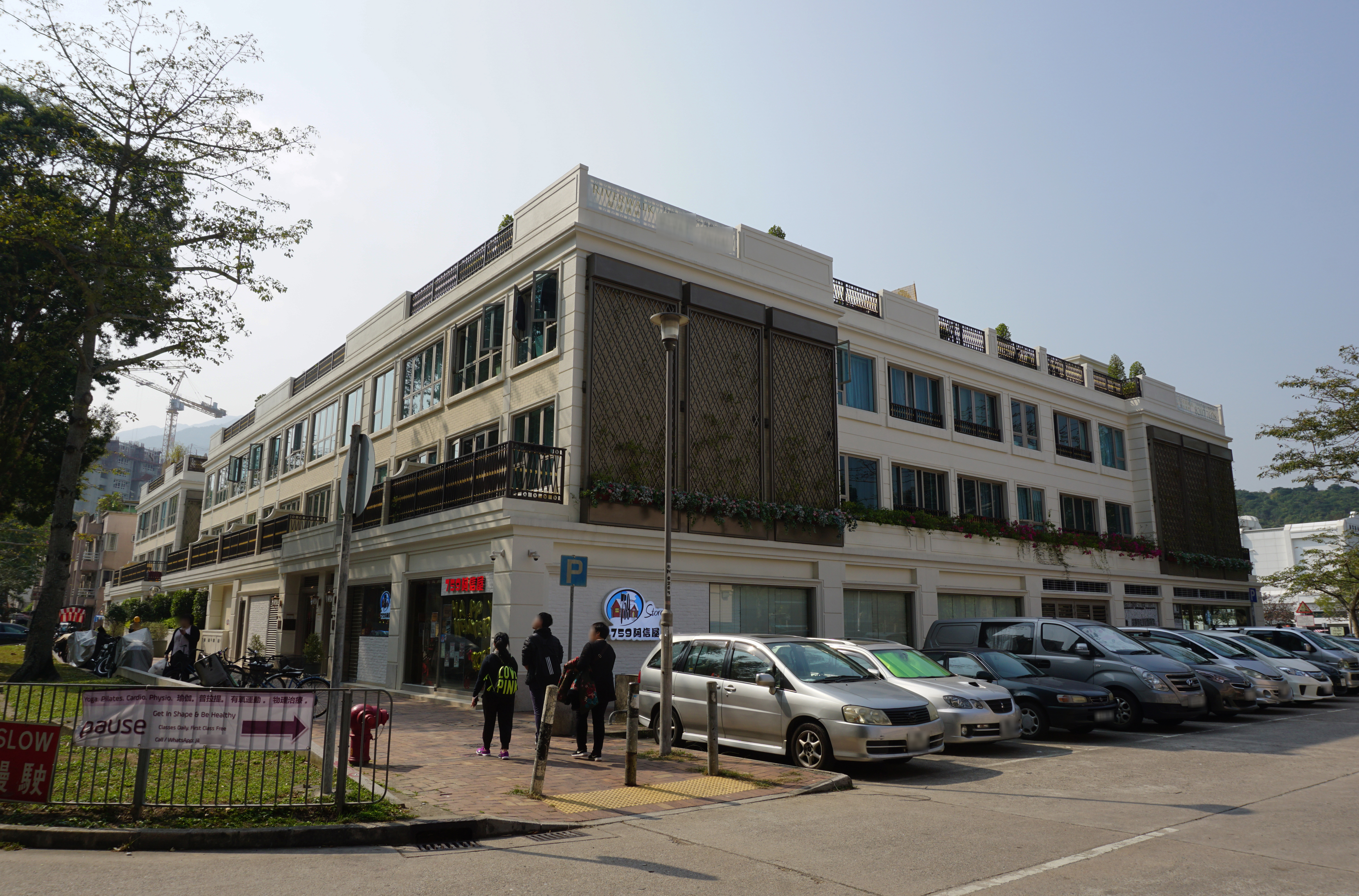 Riverwalk in Mui Wo, Hong Kong.